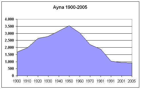 Ayna's population, Albacete, Spain, (1900-2005). Own work, given to PD. Source: Instituto Nacional de Estadística.